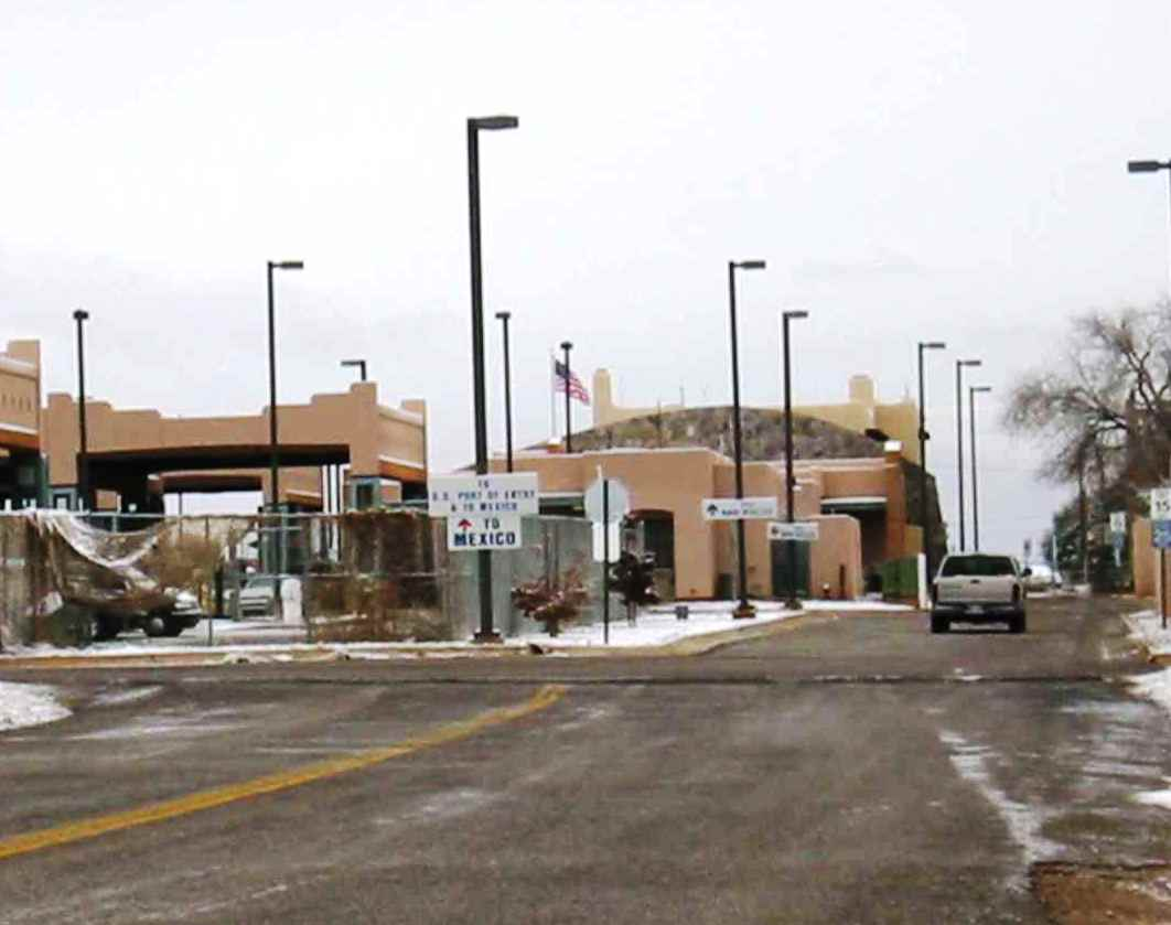 Naco Arizona Port of Entry, December 2001